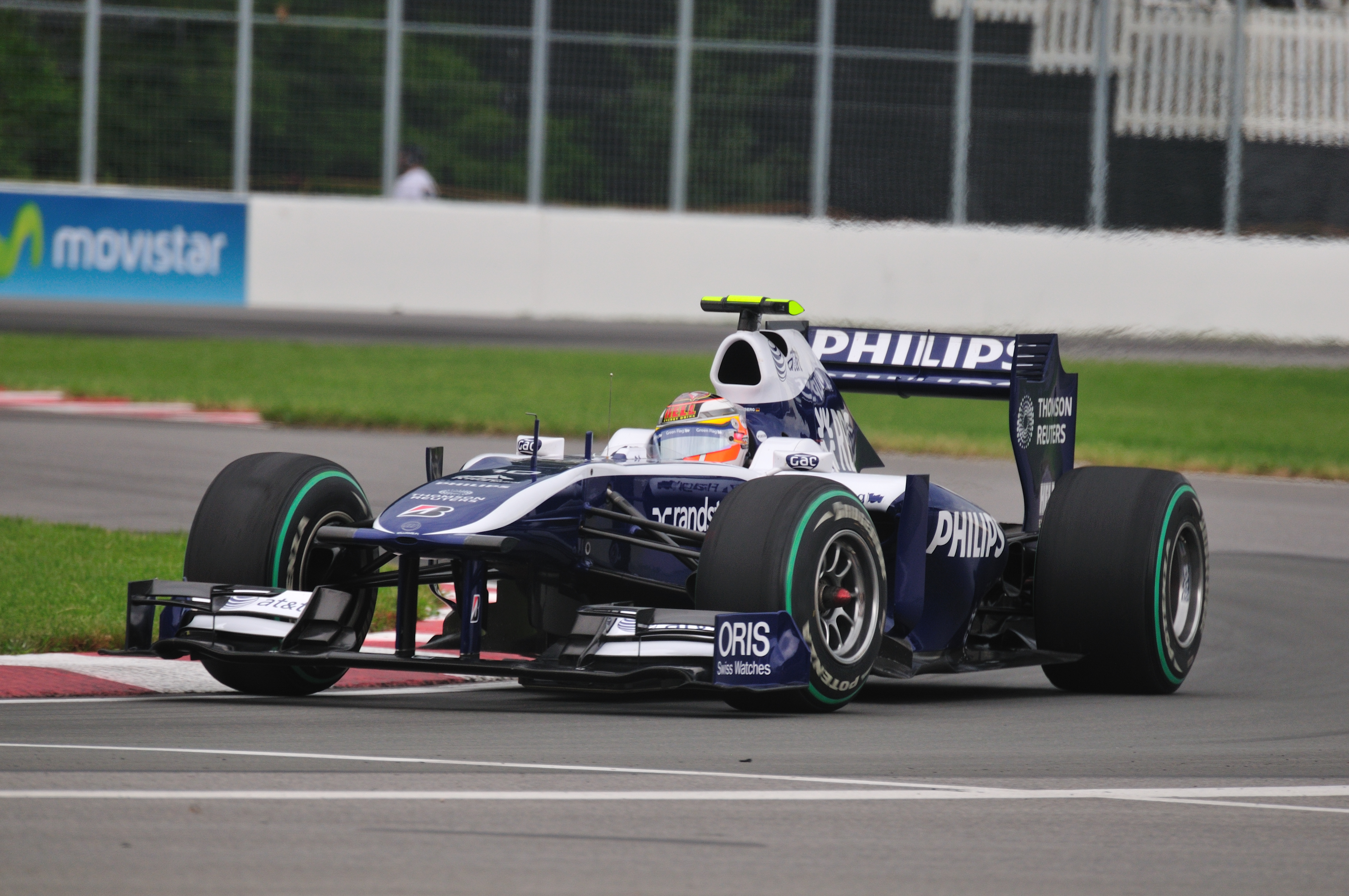 Williams driver Nico Hulkenberg of Germany (2010 Canadian GP)